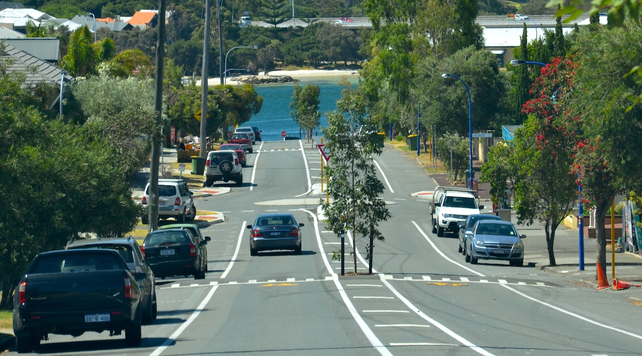 East Street, Fremantle, Western Australia, looking north, down hill and to the Swan River